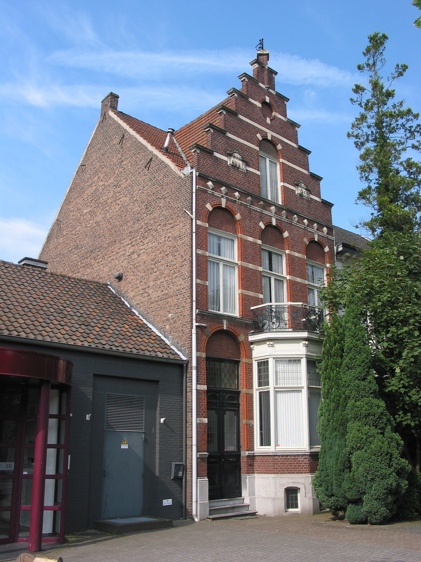 Jean Speetjens (architect; attributed to). House Windhausen, Kapellerlaan 48, Roermond. 1898.